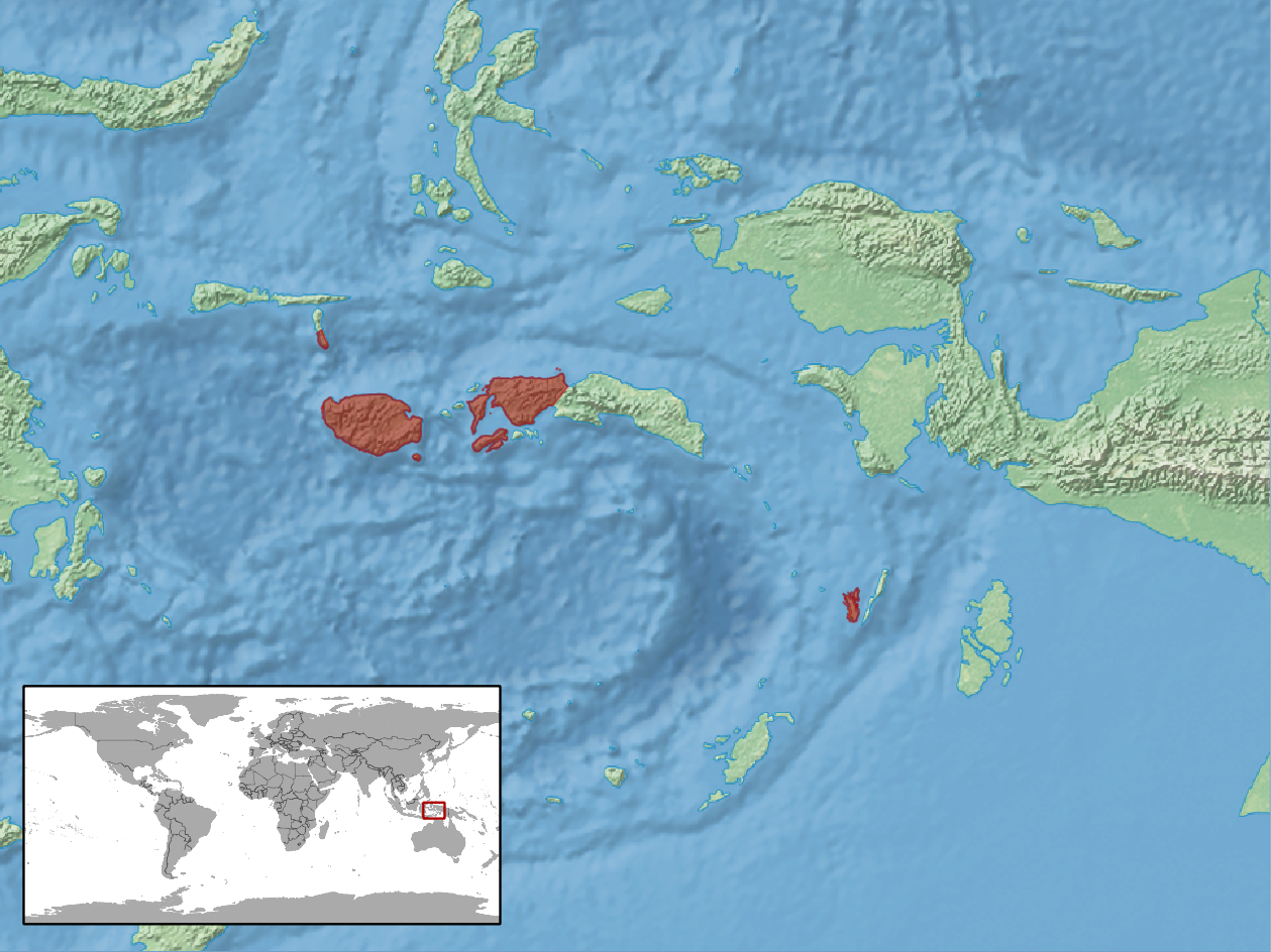 geographic distribution of Draco lineatus (Native: Indonesia)